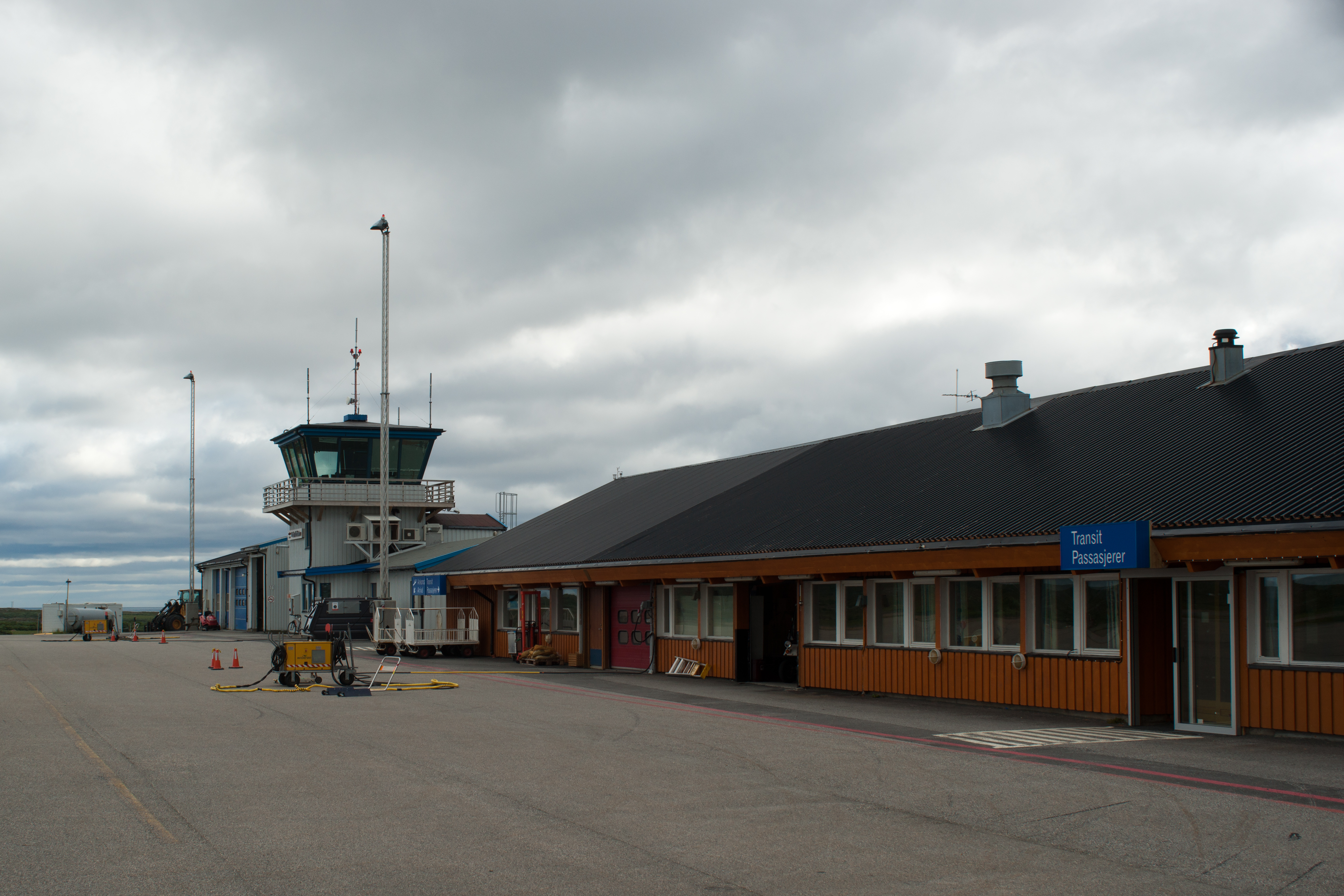 Vadsø Airport, Norway.